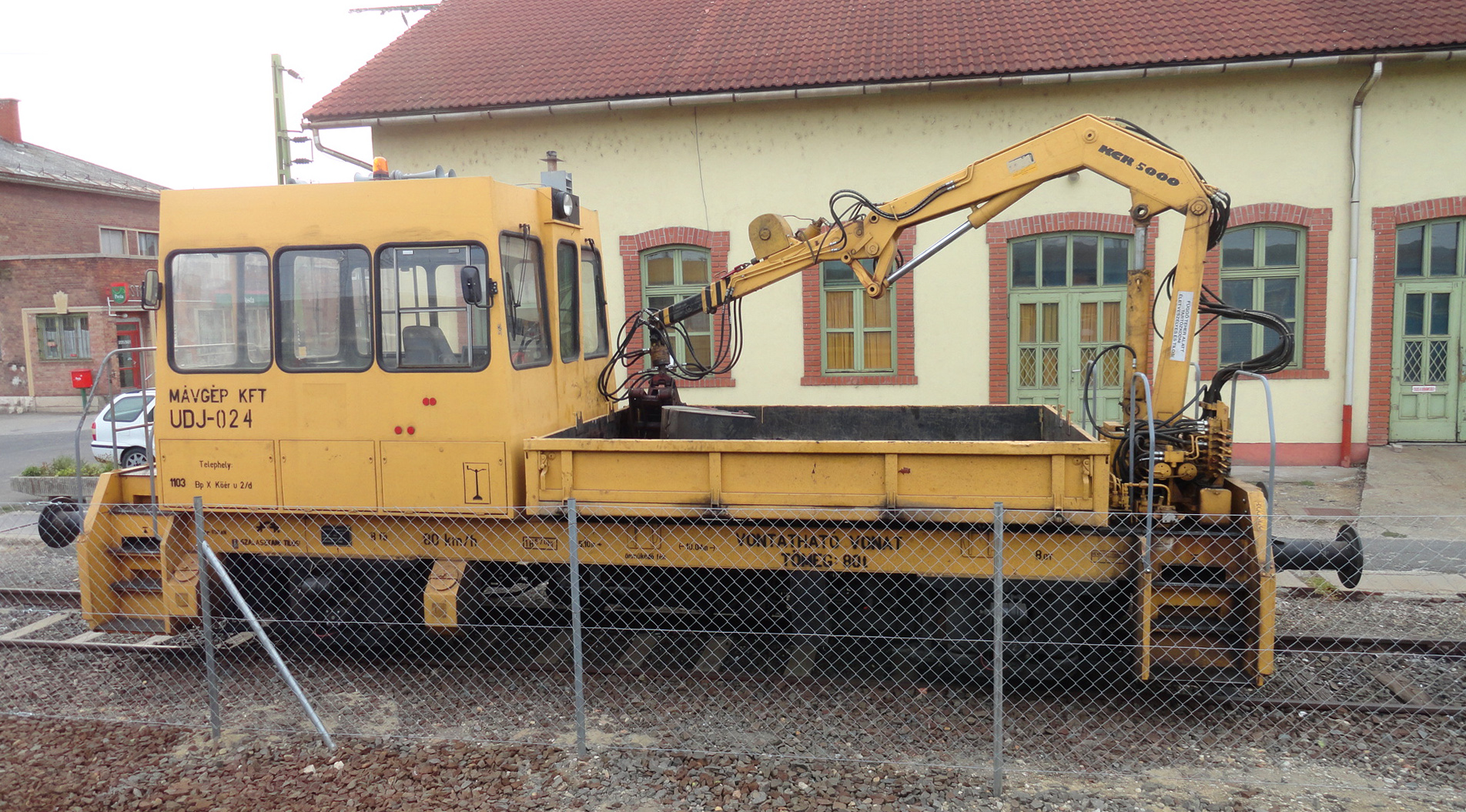 A rail service vehicle (UDJ 024 - Univerzális darus jármű - Universal Crane Vehicle) in Dombóvár railway station